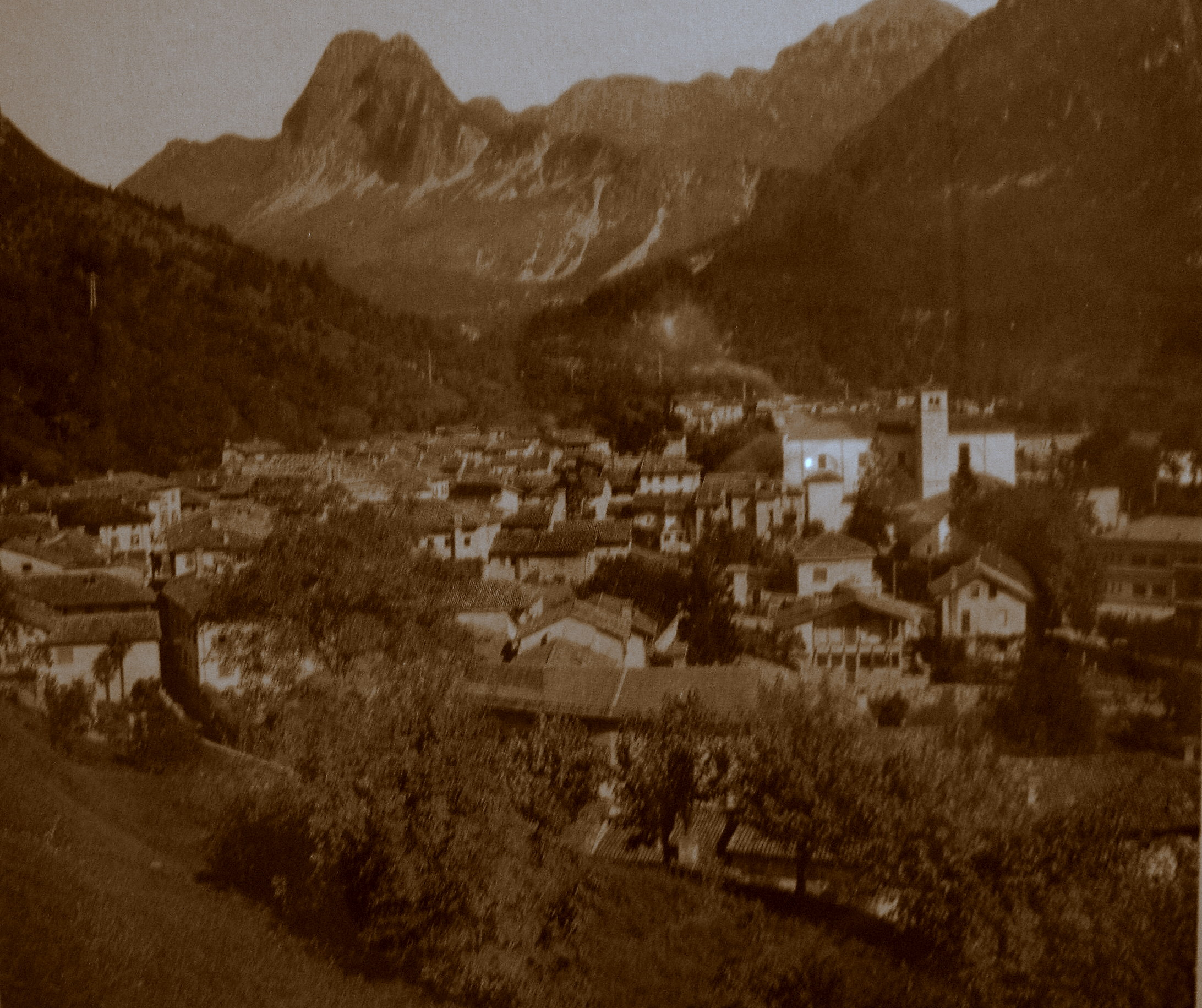 Moggio Basso in Moggio Udinese in Canal del Ferro / Friuli-Venezia Giulia / Italy / EU.